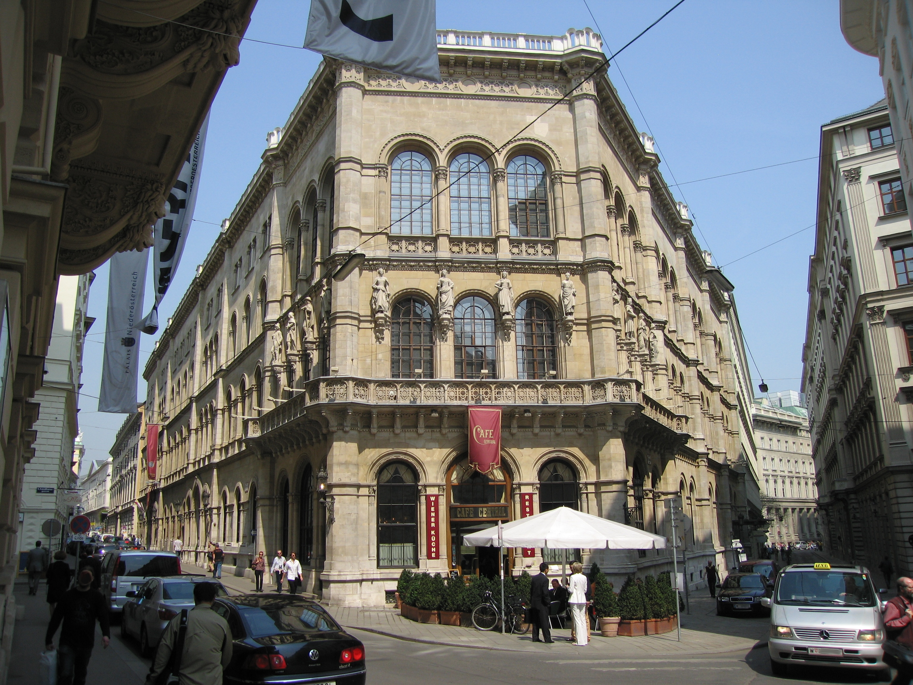 Palais Ferstel in Herrengasse, Vienna. One face and two number plates blurred out.